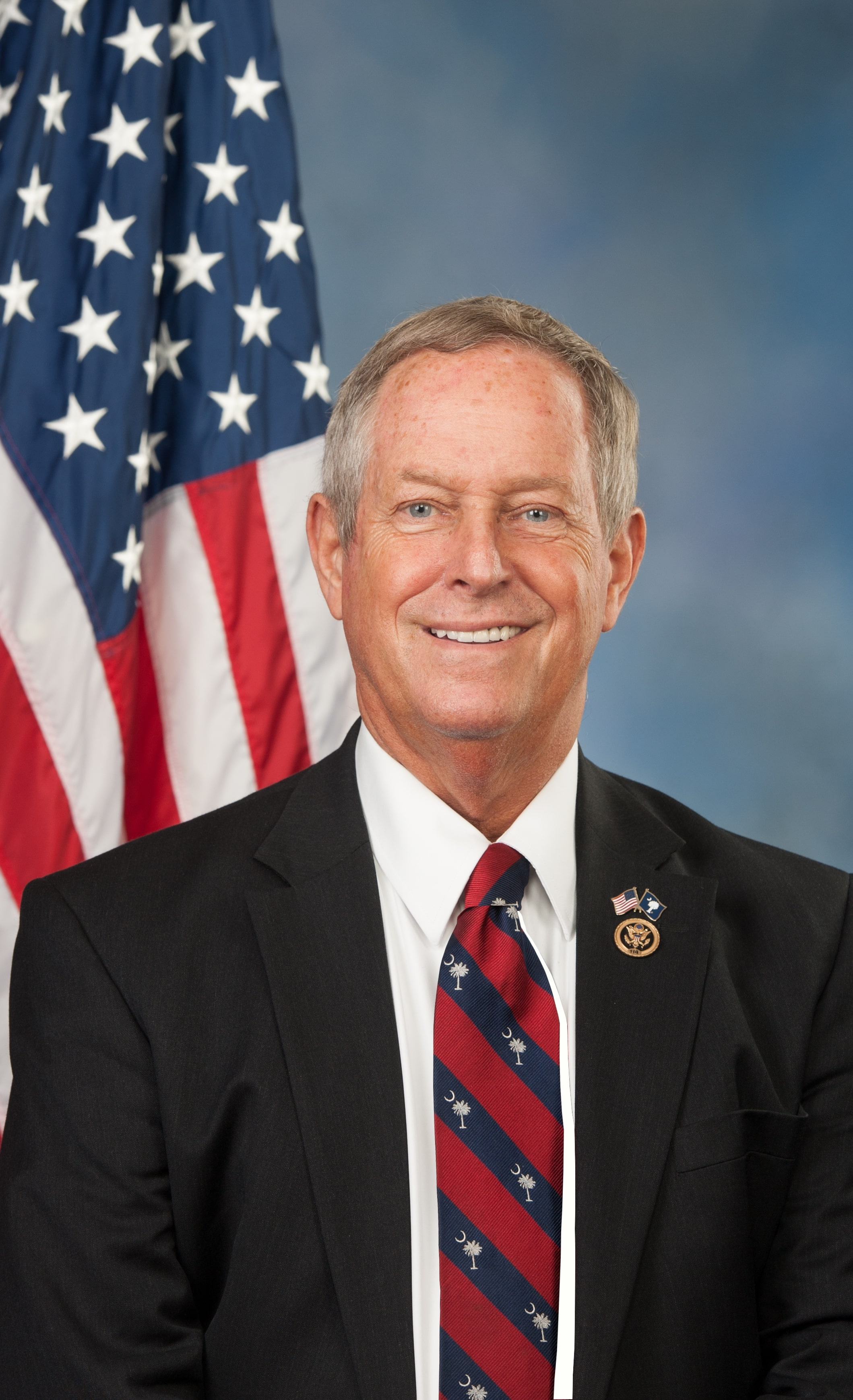 Joe Wilson official congressional photo